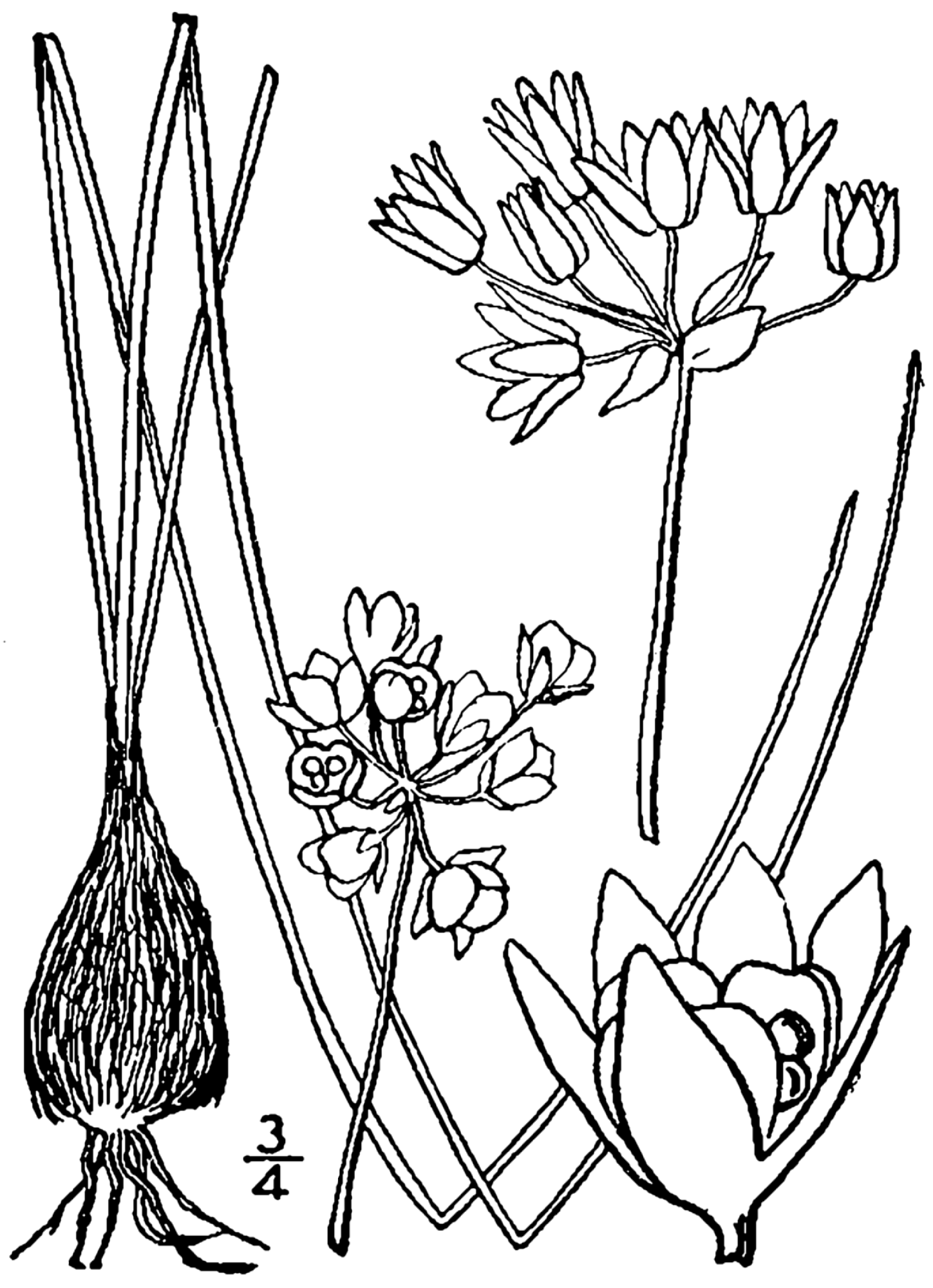 Drummond's Onion. Family Alliaceae. Drawing.